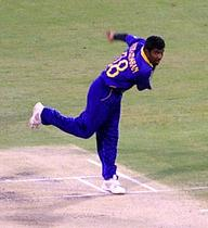 Photo of Muttiah Muralitharan.